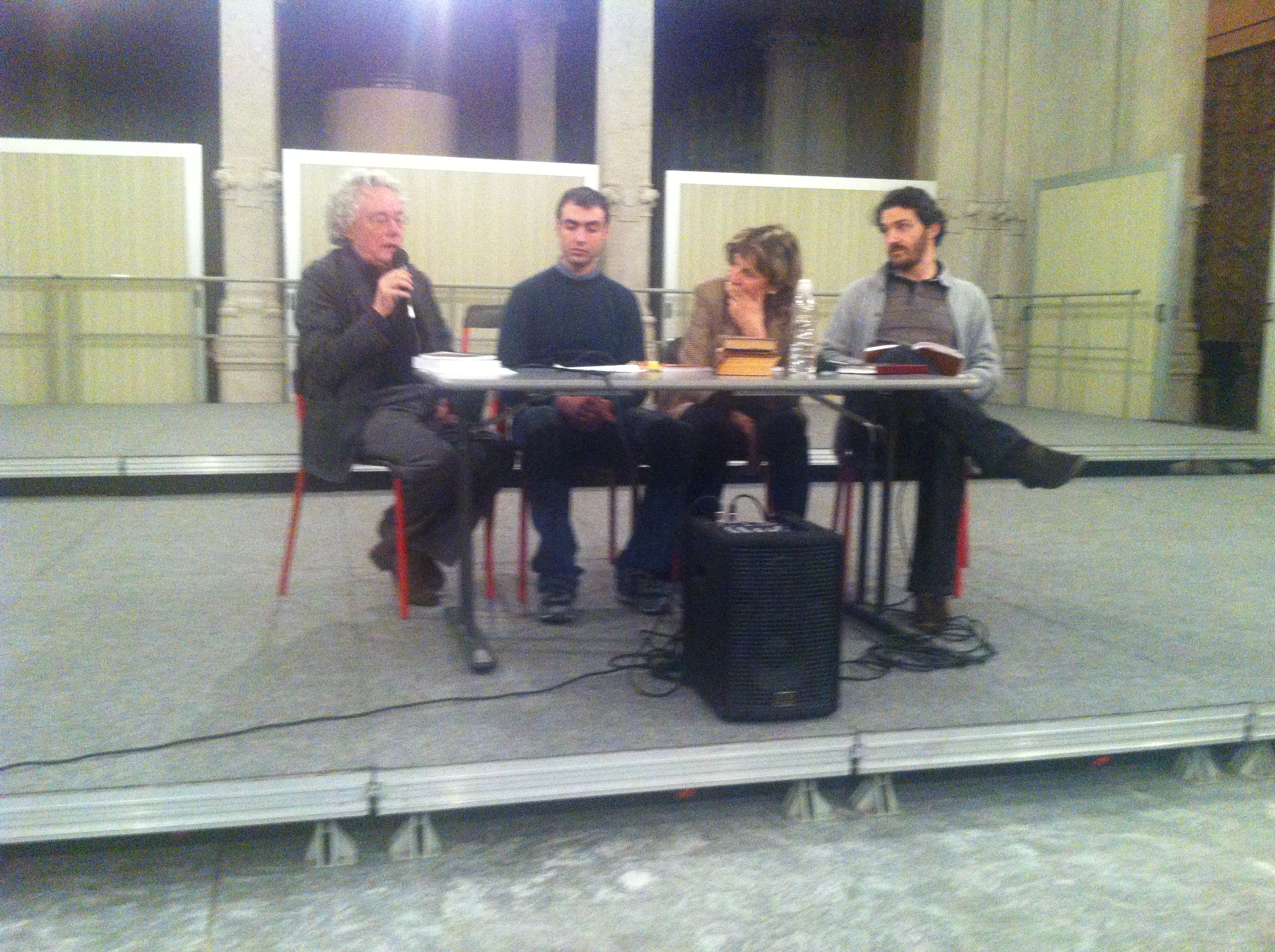 I have got it in occasion of Menotti Lerro presentation, in MIlan.